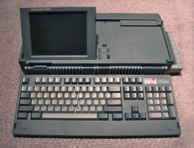 Amstrad PPC 640. Personally owned; sold on ebay.